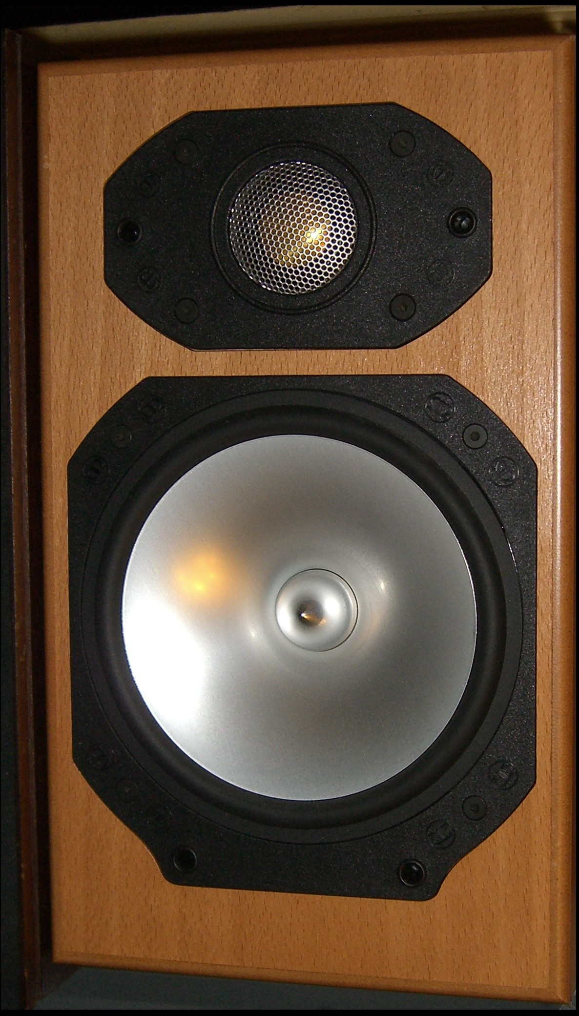 Monitor Audio Silver S1 speaker